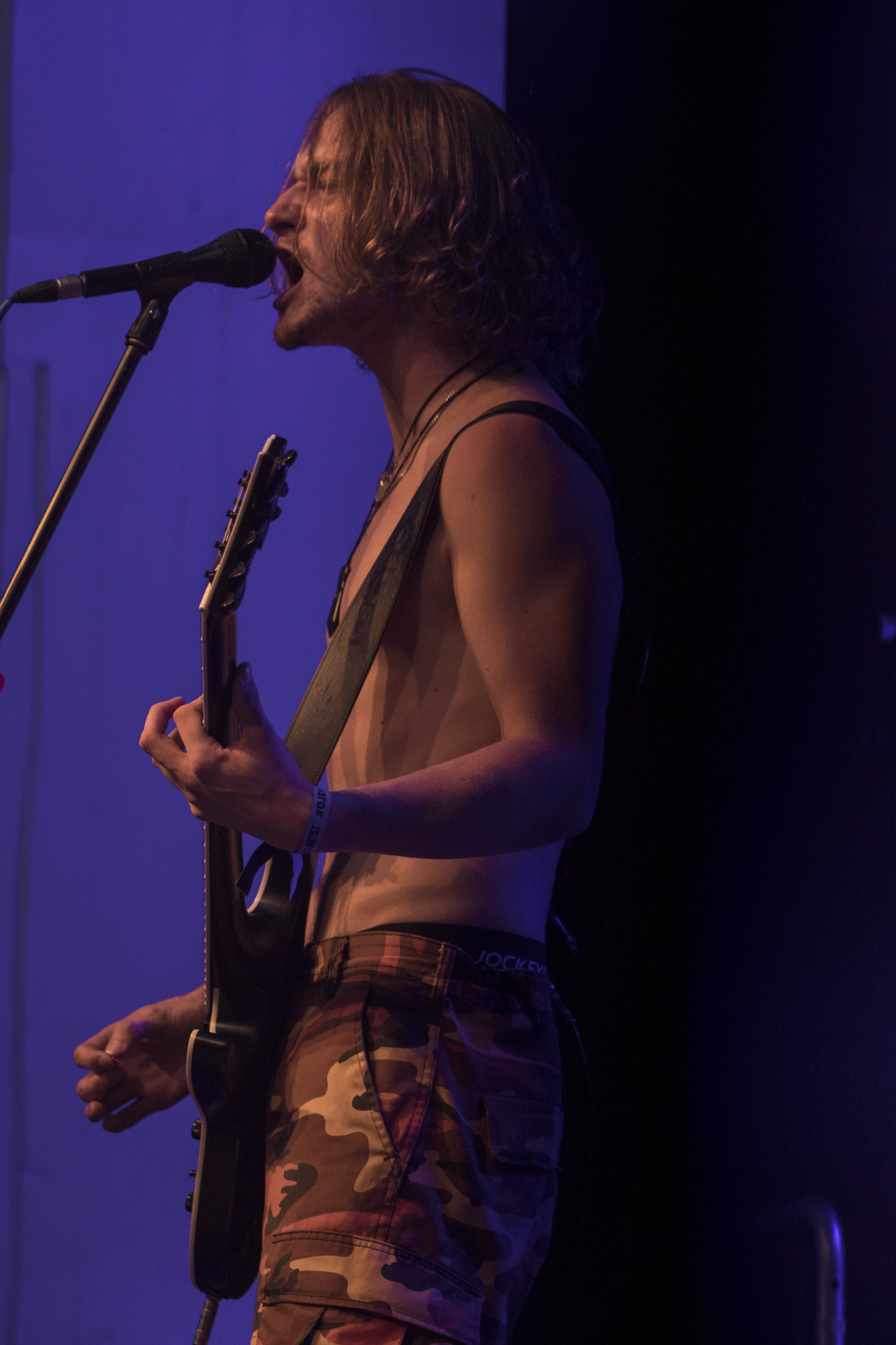 Alien Weaponry at Tuska Open Air Metal Festival 2019 in Helsinki, Finland (Kalasatama)